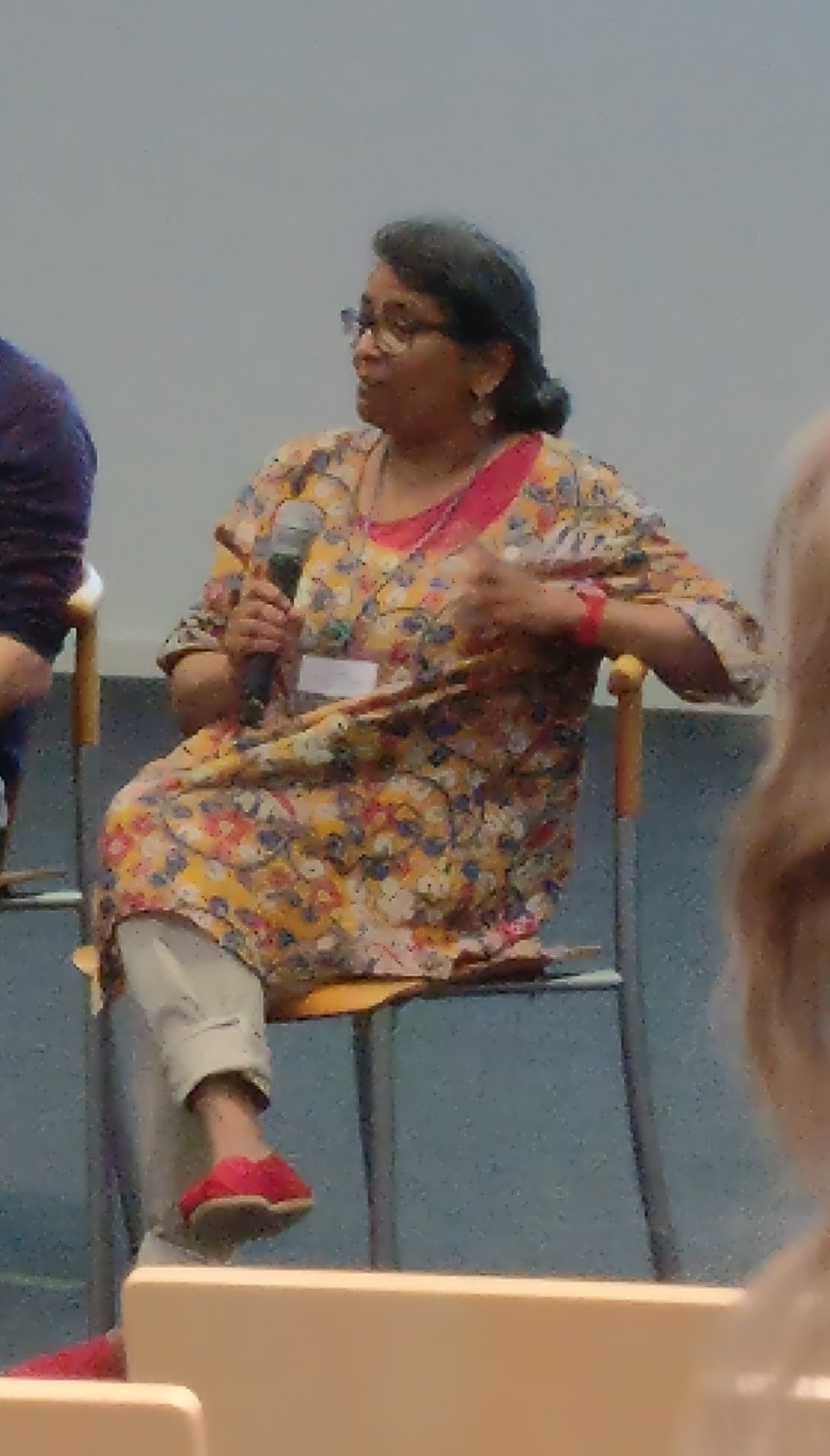 Taco Kooij, Justin Boddey and Rita Tewari at BioMalPar19, EMBL Heidelberg on a panel discussion about the future of publishing.